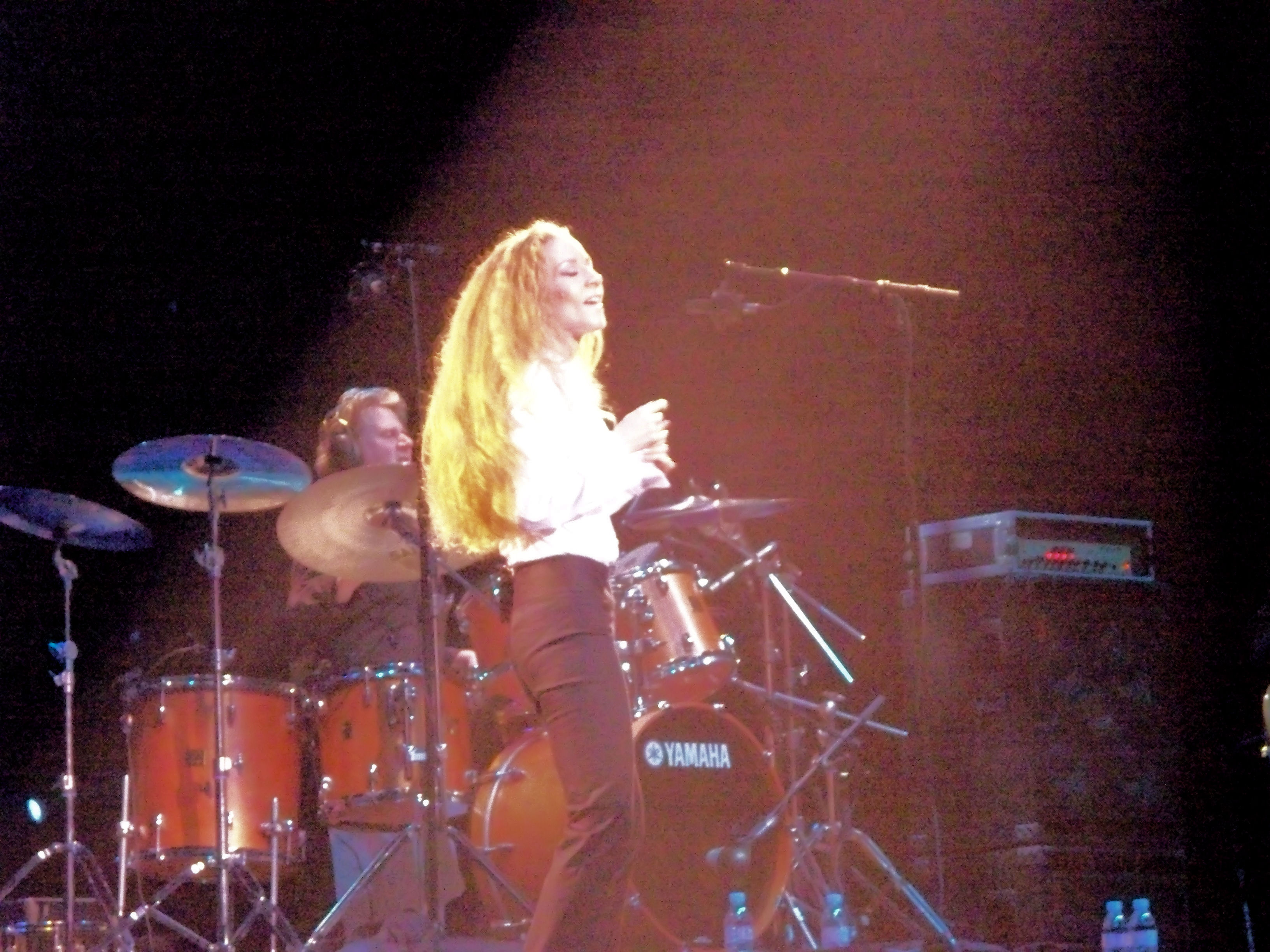 Amanda Marshall (Al Webster on drums) in concert at Casino Rama, Ontario, Canada, October 13, 2007